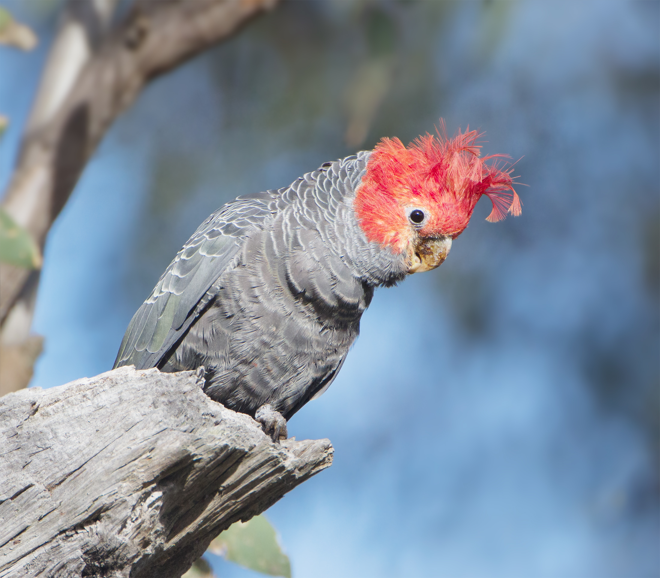 Gang-gang Cockatoo (Callocephalon fimbriatum), Callum Brae, Australian Capital Territory, Australia